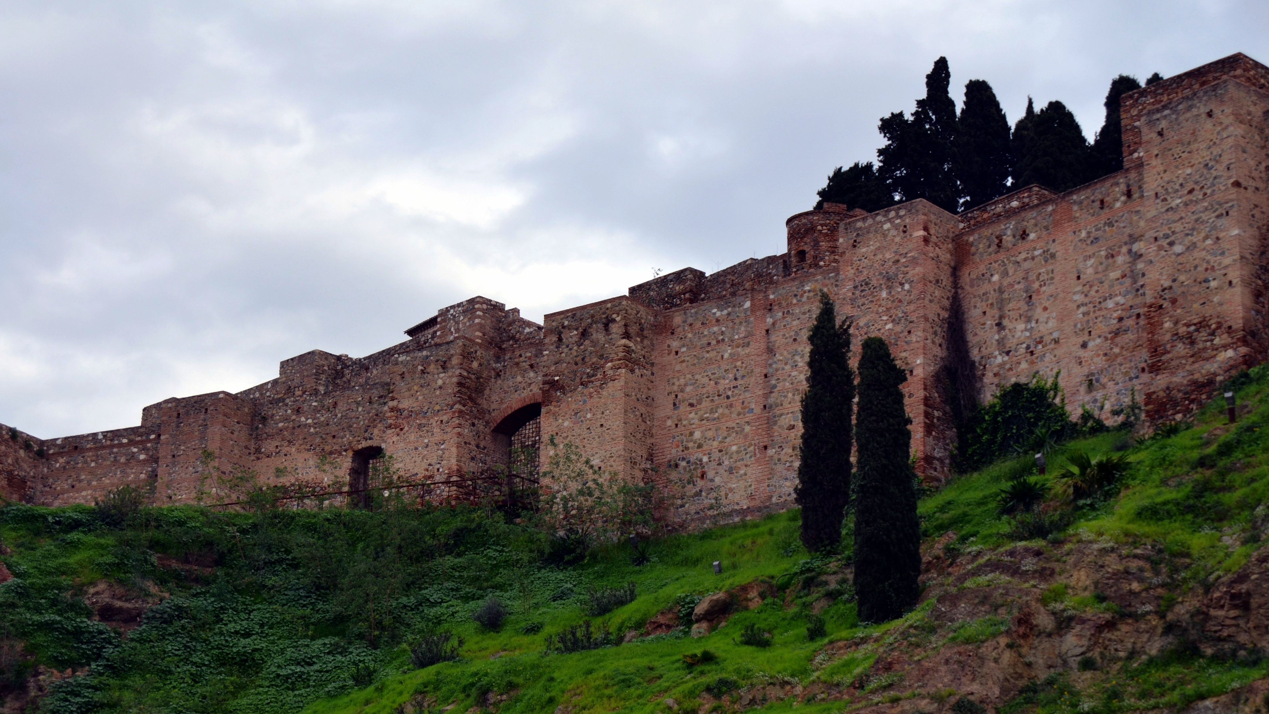 Alcazaba of Málaga, Andalusia, Spain